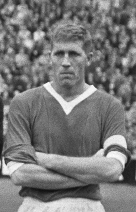 Dutch footballer Jan Villerius in 1966 at ADO Den Haag